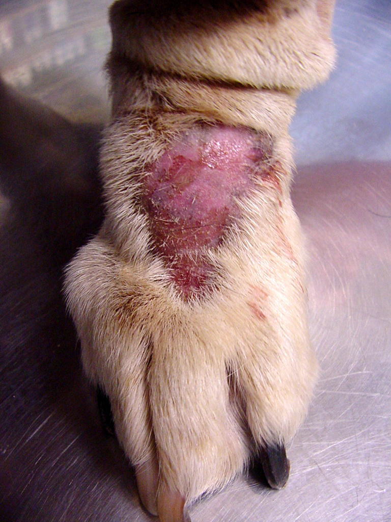 canine lick granuloma / acral lick dermatitis; self-inflicted as an obsessive-compulsive self-destructive behavior